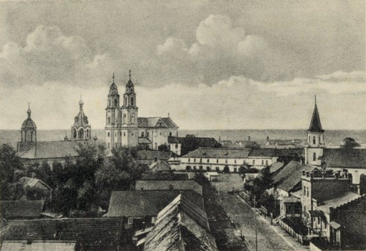 View of Ilūkste (Illuxt) before 1915.